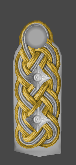 Rang insignia shoulder strap, here “SS-Obergruppenfuehrer and General of the Waffen-SS” (today comparable to NATO OF-8) until 1945.